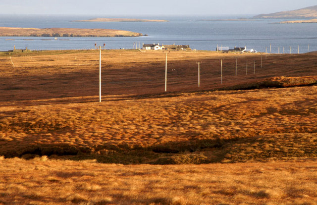 Above Basta